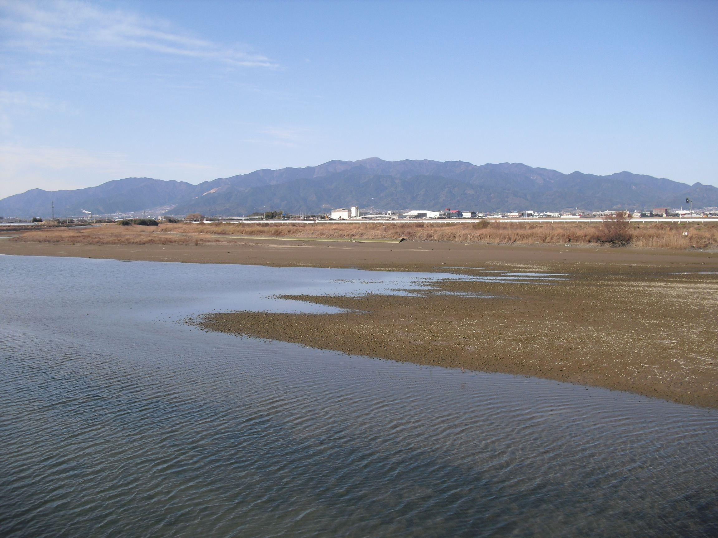 Takanawa Mountains as seen from the east in Takanawa Peninsula, Ehime Prefecture. Nakayama River in the foreground.